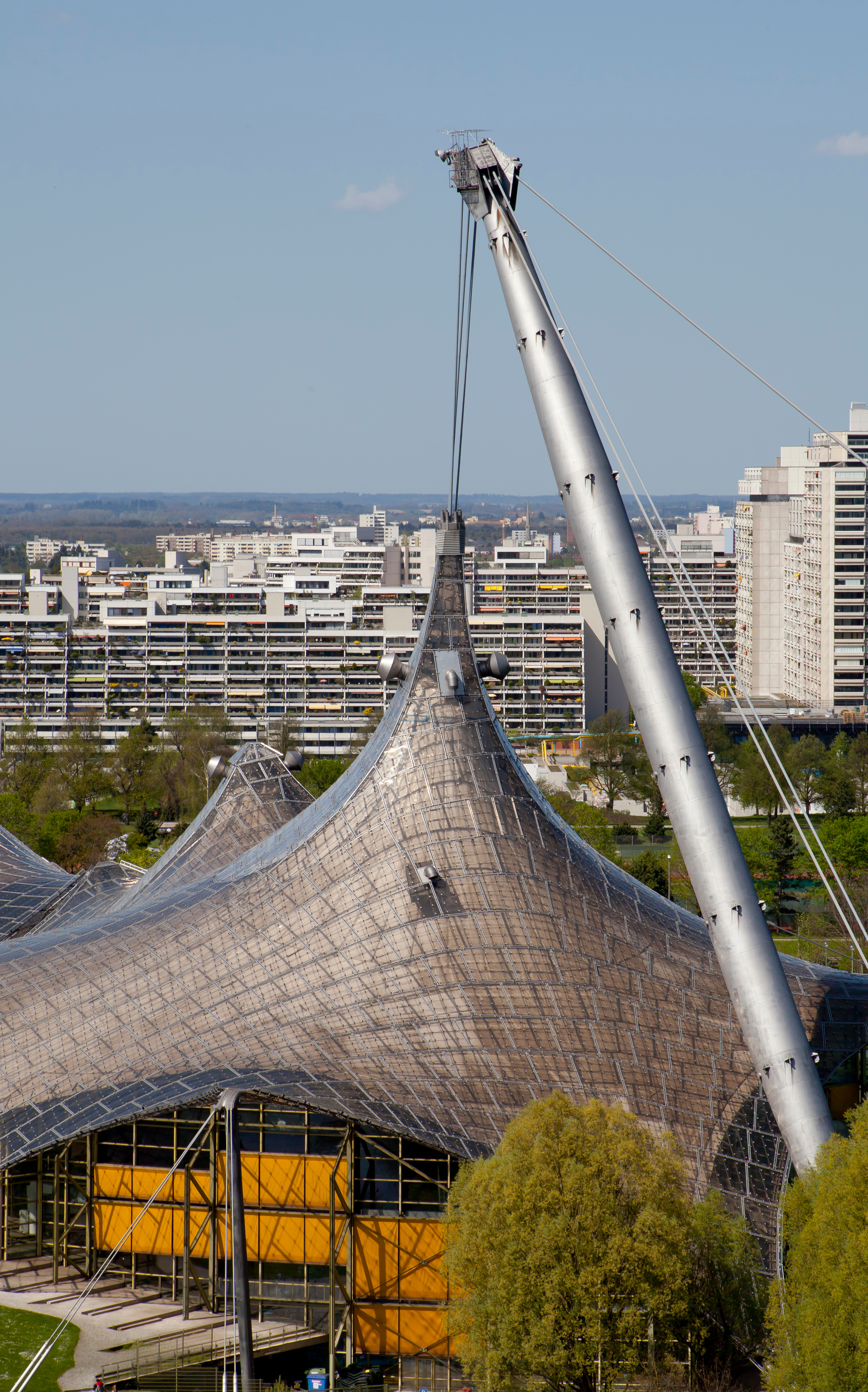 Olympic Stadium, Munich, Germany